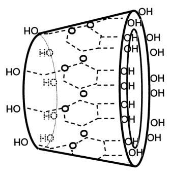 Gamma CD cone shape